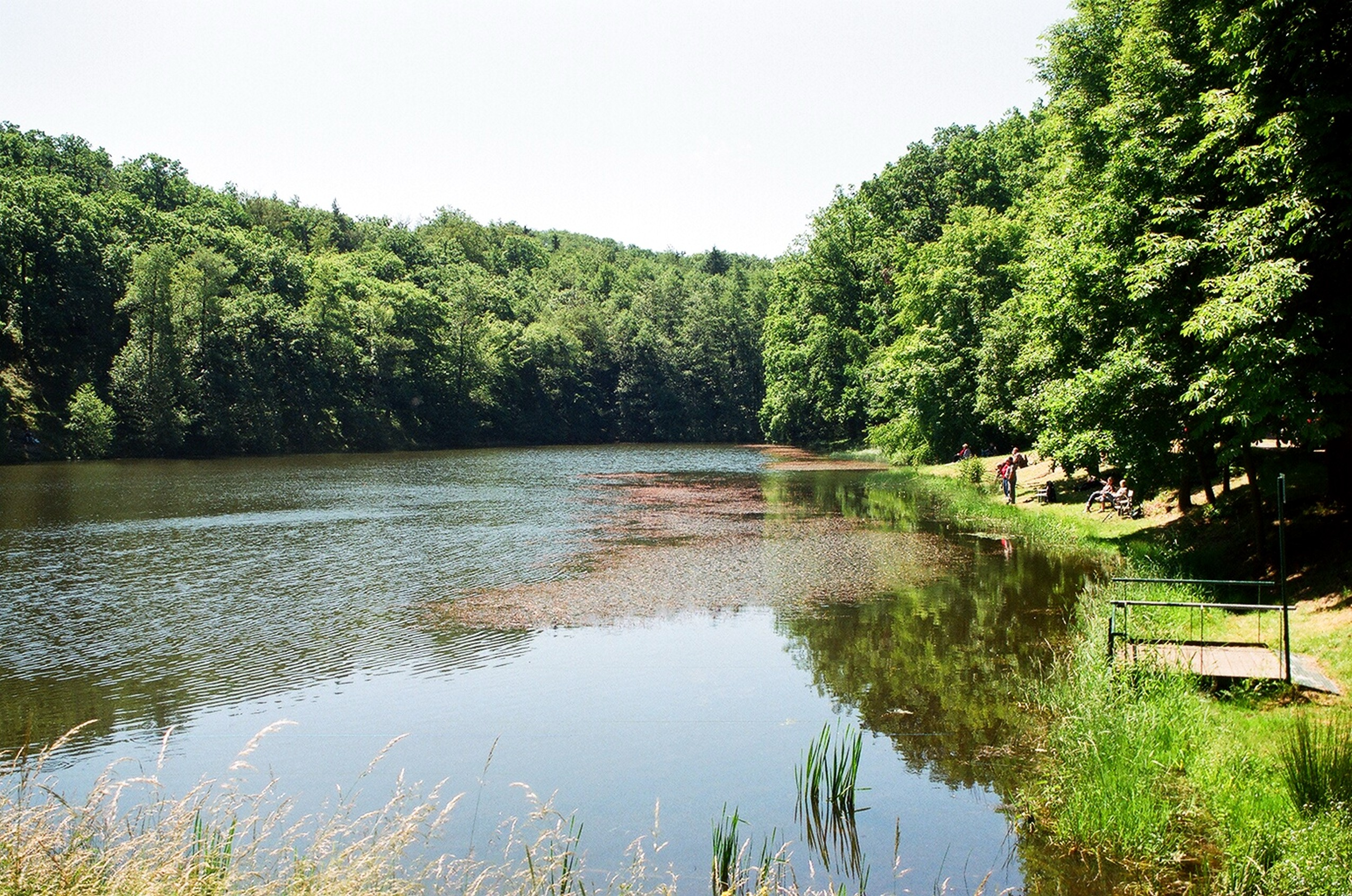 Ballenstedt, the pond "Großer Dachsteich"